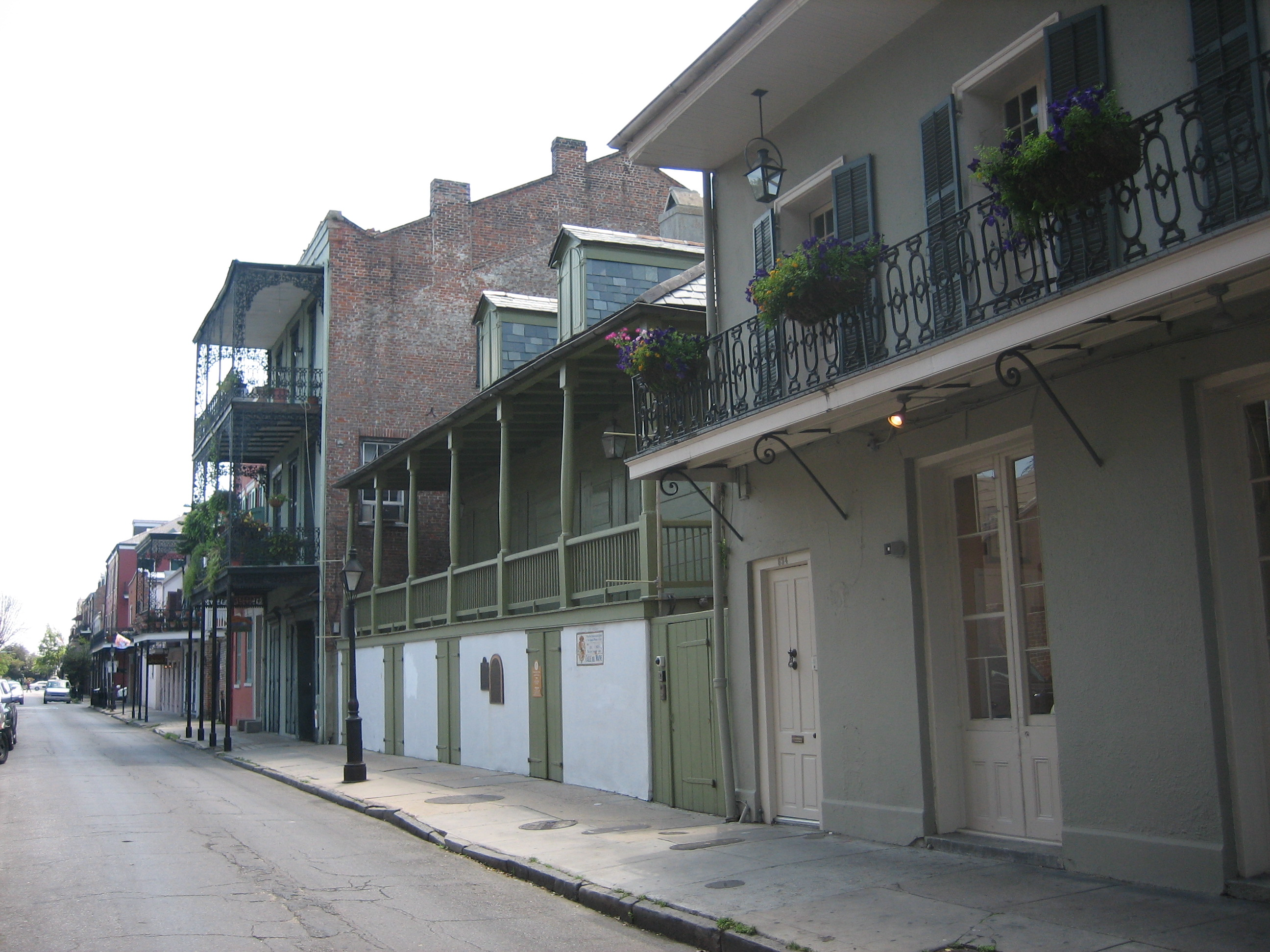 New Orleans: The "Madame John's Legacy" building in the French Quarter, view facing towards the Mississippi.